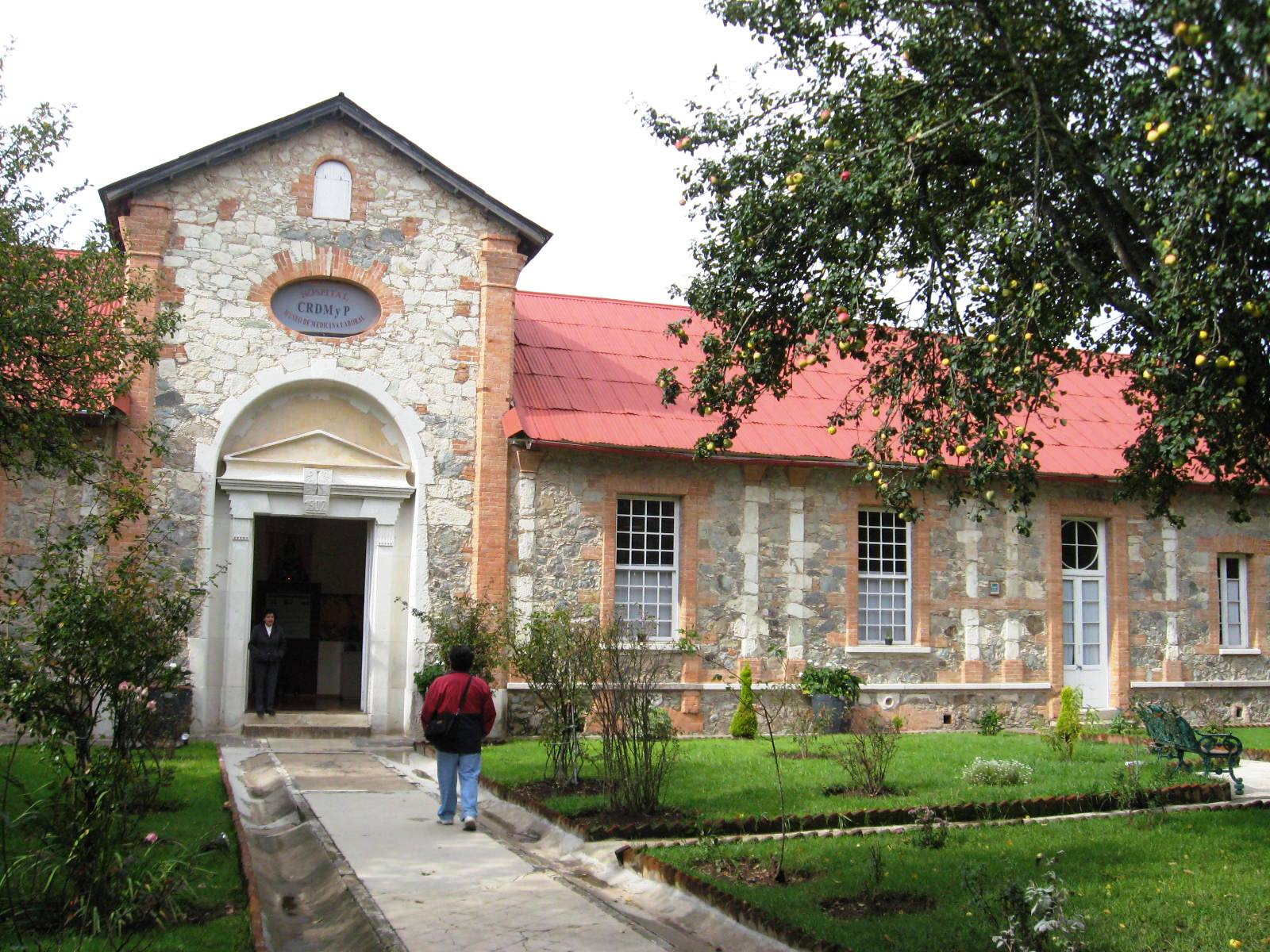 Inside courtyard of the Ex-Hospital Minero - Museo de Medicina Laboral (Ex Miner's Hospital and Museum of Workplace Medicine) in Real del Monte, Hidalgo State, Mexico